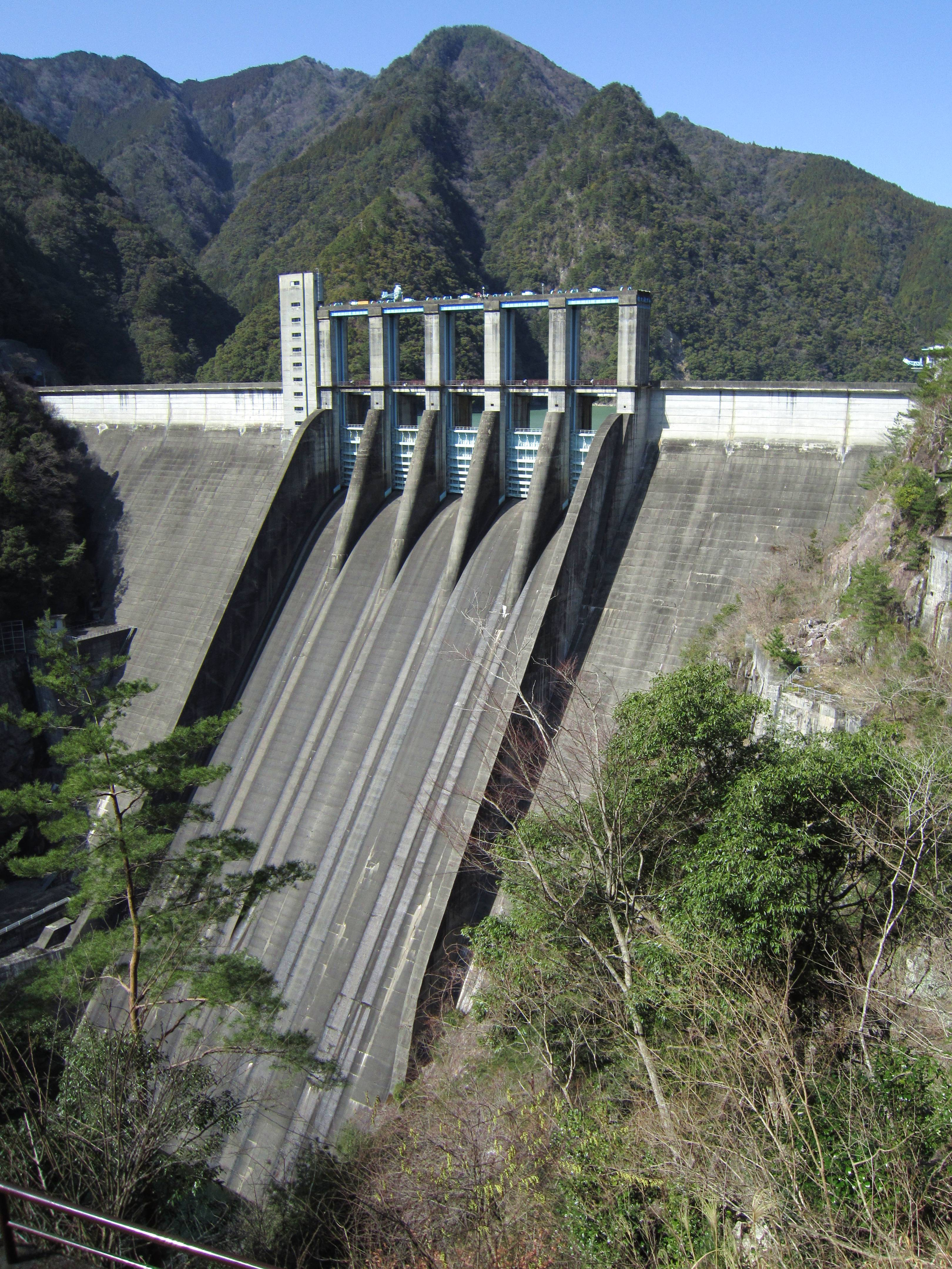 Sakuma Dam.